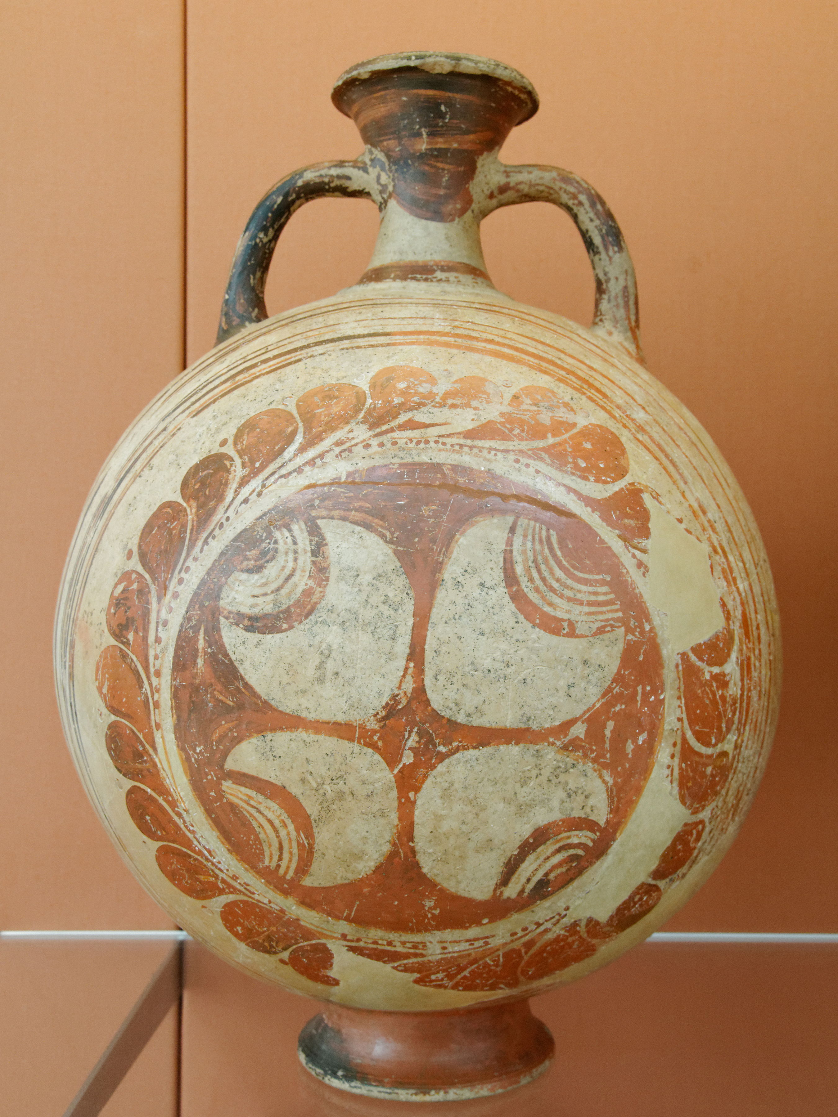 Large globular flask of Furumark type FS 187 with red-brown on a cream ground. Late Minoan IIIA1.